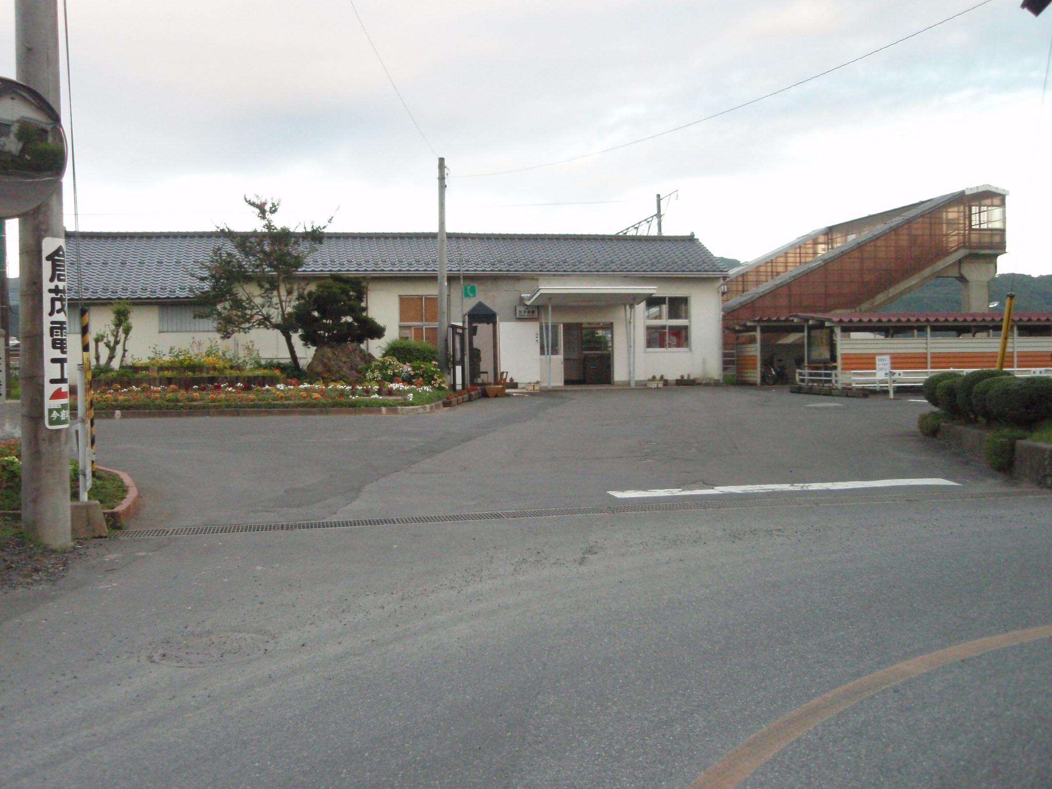 Front of the Ōshio station in Echizen, Japan